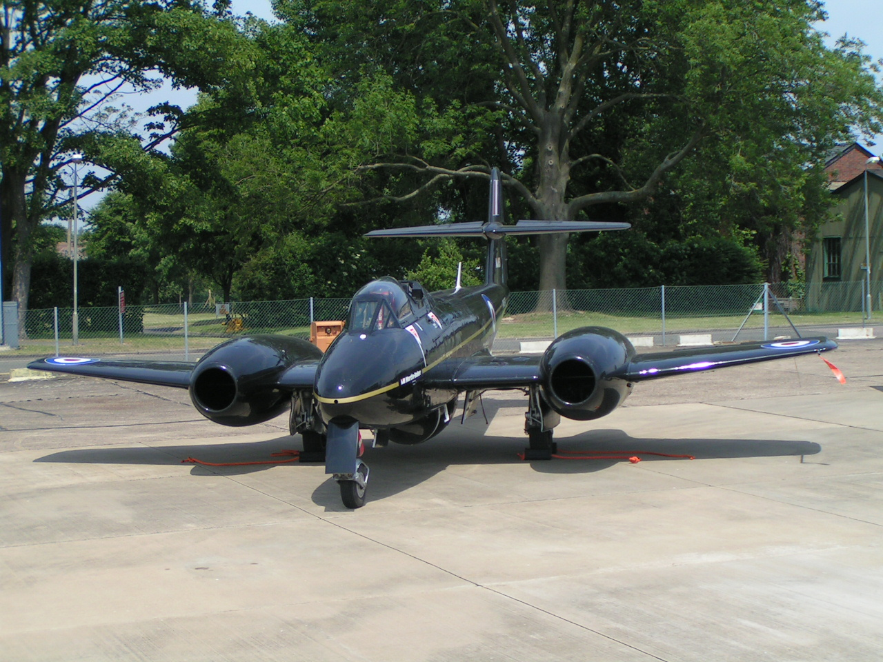 Photocall 2006